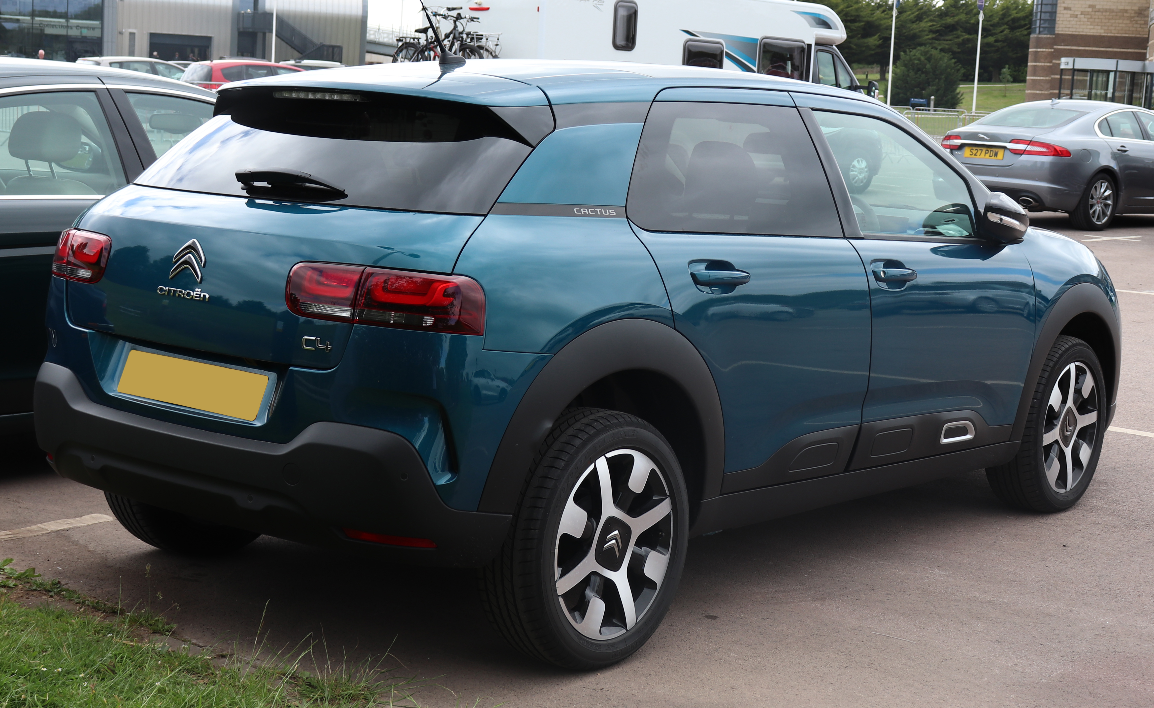 2018 Citroen C4 Cactus Flair BlueHDI S facelift 1.6 Rear Taken at the British Motor Museum, Gaydon